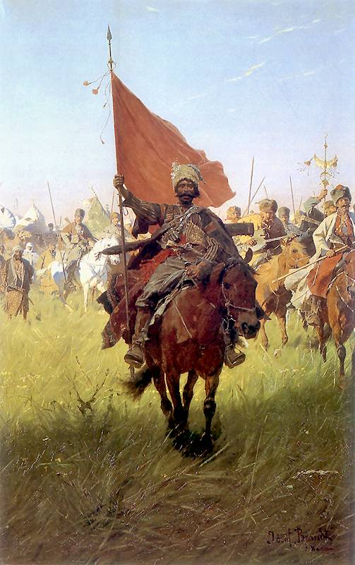 Return of triumphants (Ukrainian Cossack with flag)